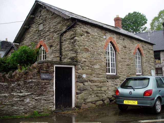 Yr Hen Ysgol. The old school at Llandderfel, standing in the middle of the village.